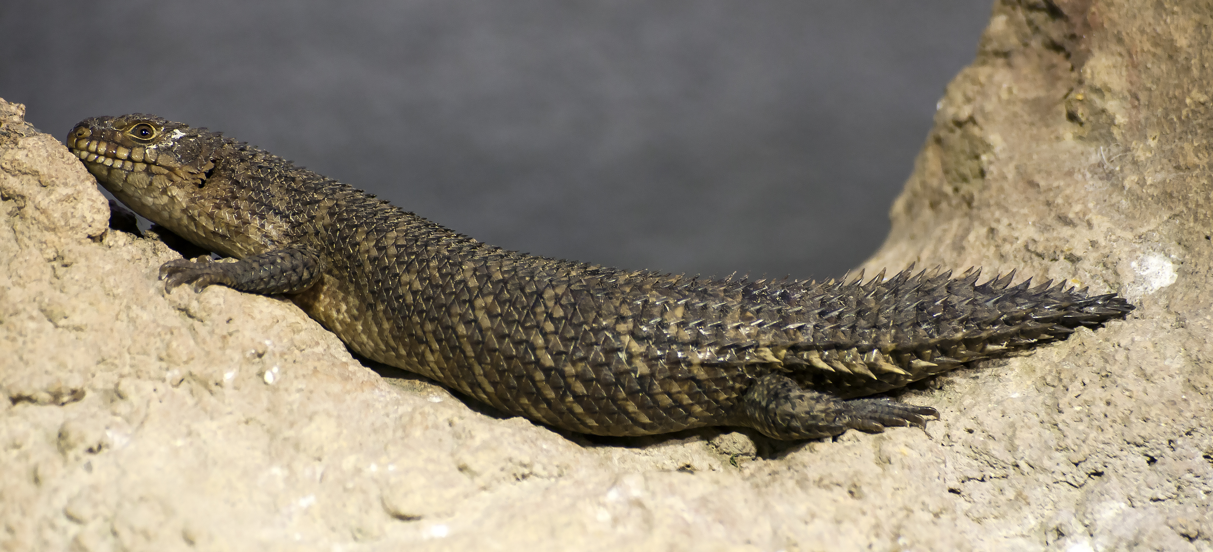 Gidgee skink (Egernia stokesii) at London Zoo.